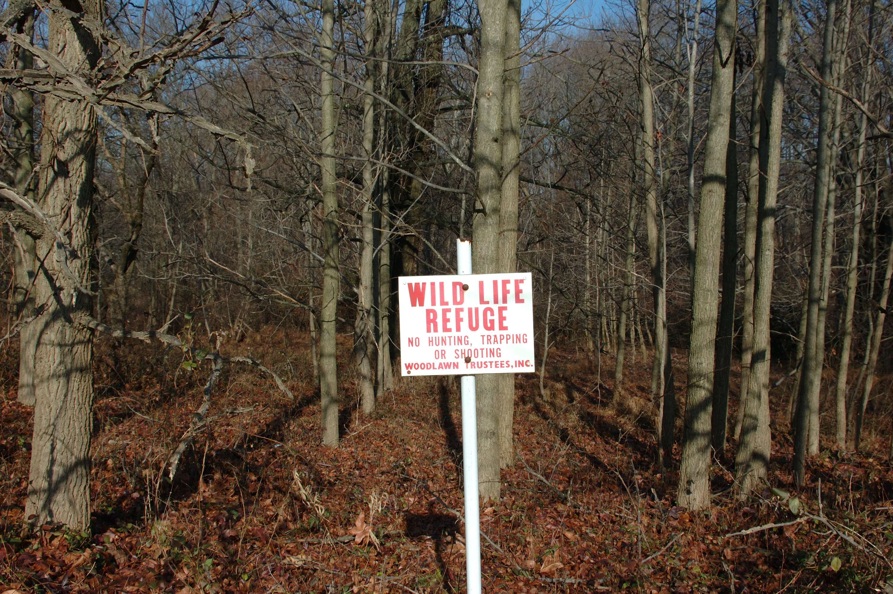 Woodlawn Wildlife Refuge sign standing sentry to the woods.